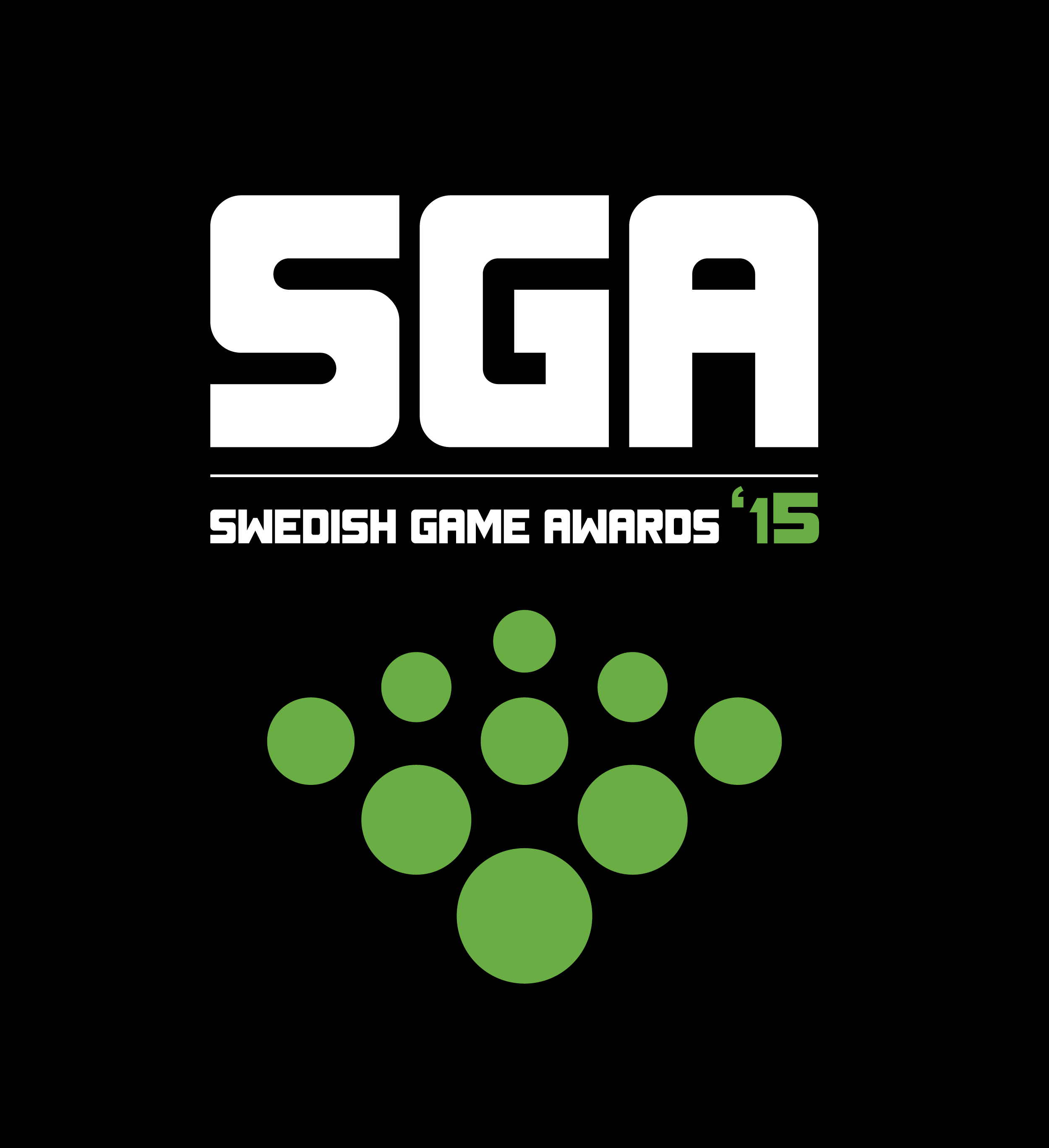 Logotype for the Swedish Game Awards 2015, made by Victor Blomqvist Ankarberg.